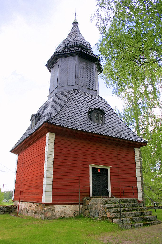 The belfry of the Evangelic-Lutheran church in Askola, Finland